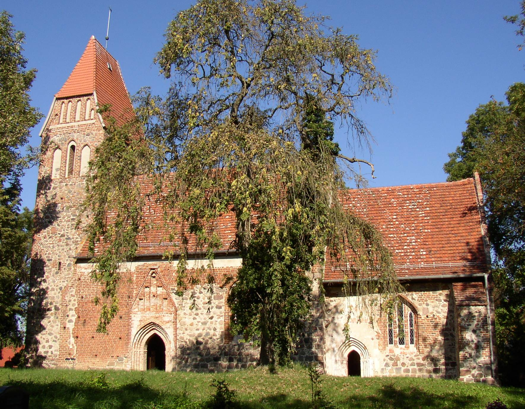 Church in Schorssow-Bülow in Mecklenburg-Western Pomerania, Germany